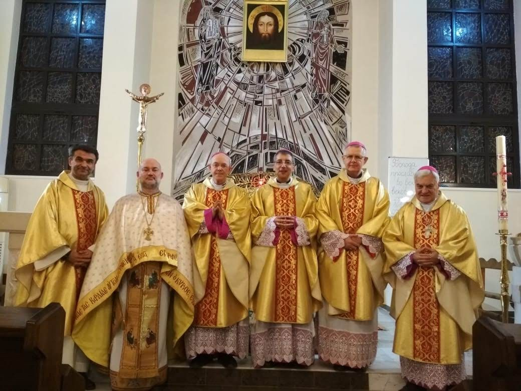 Konferencja Episkopatu Kazachstanu XI 2019